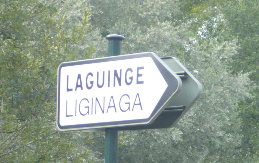 Uhaitzandi (fr. Saison) river and bilingual (eu-fr) road sign in Liginaga (fr. Laguinge), Zuberoa-Soule, Basque Country.